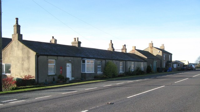 Cottages at Carterway Heads. Shows the location of 1056615.